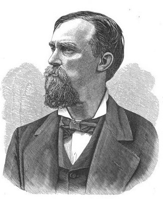 Charles A. Sumner, US Representative from California